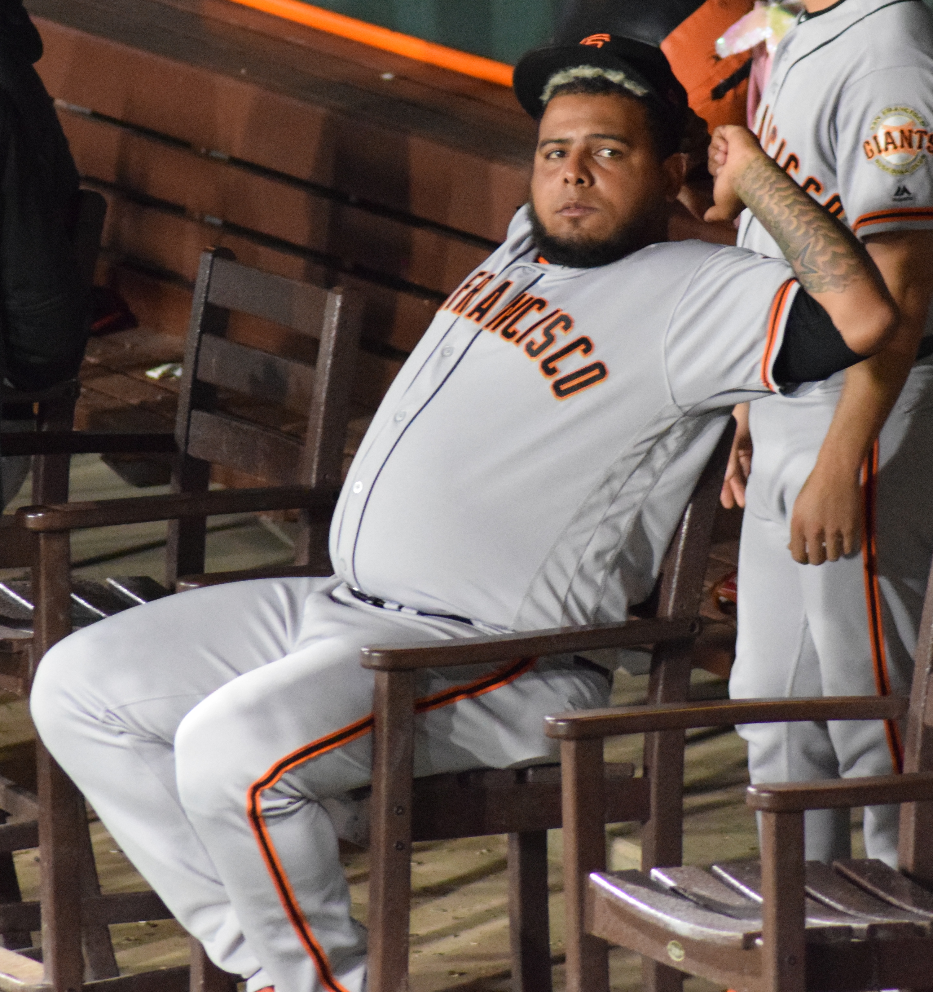 Reyes Moronta in the bullpen with the San Francisco Giants at Citizens Bank Park in Philadelphia